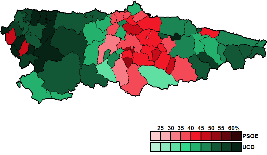 Most-voted party in Asturias municipalities, showing vote share obtained, in the Spanish general election, 1979.